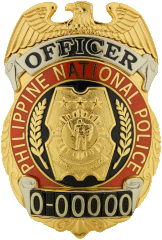 Badge of the Philippine National Police